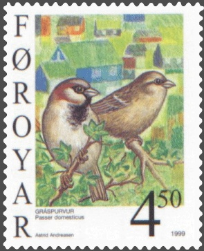 Sedentary Birds: House sparrow (Passer domesticus). Stamp FR 344 of Postverk Føroya, Faroe Islands. Date of issue: 22 February 1999. Artist Astrid Andreasen.